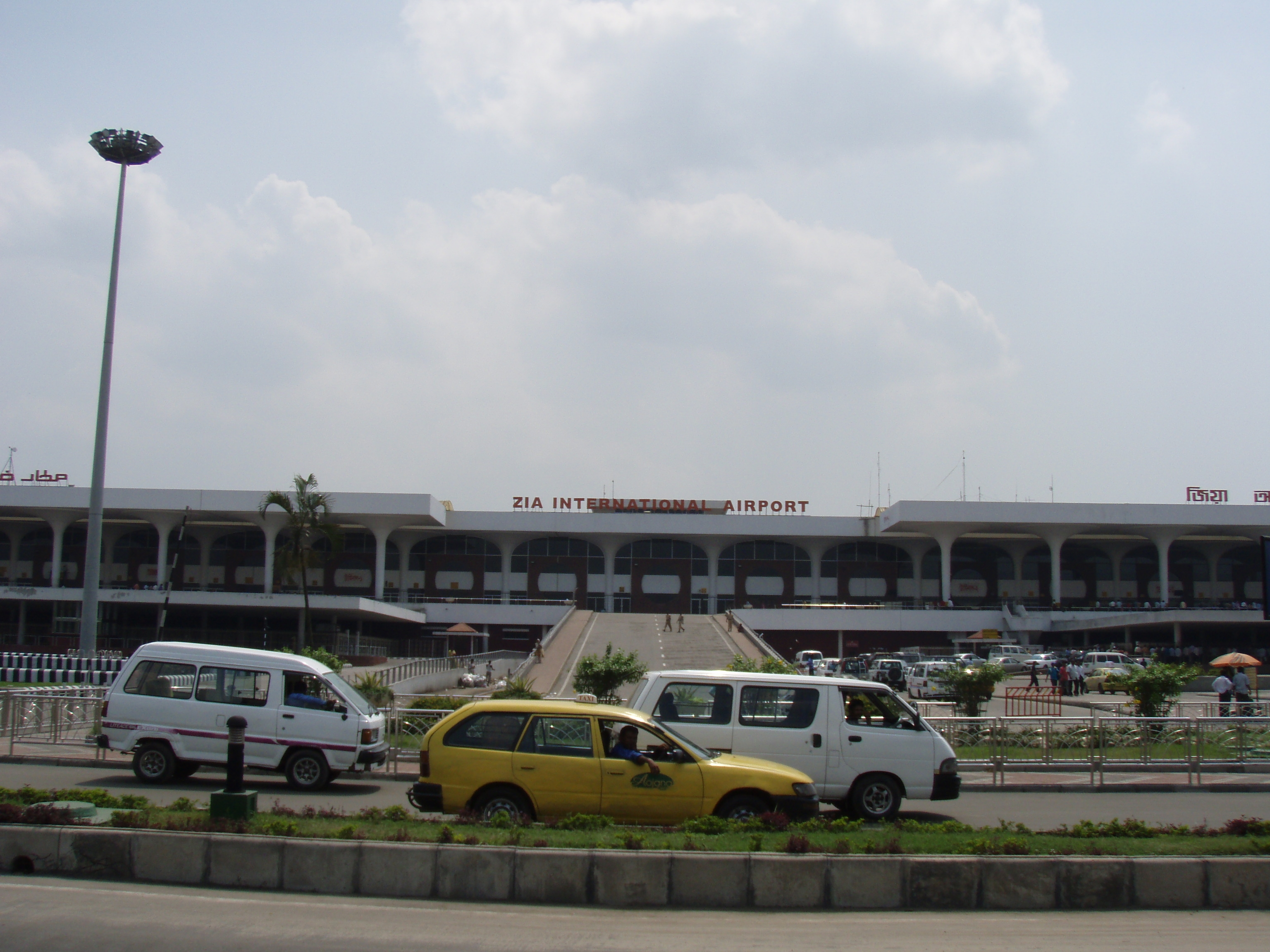 Photograph of zia international airport Bangladesh,Dhaka.